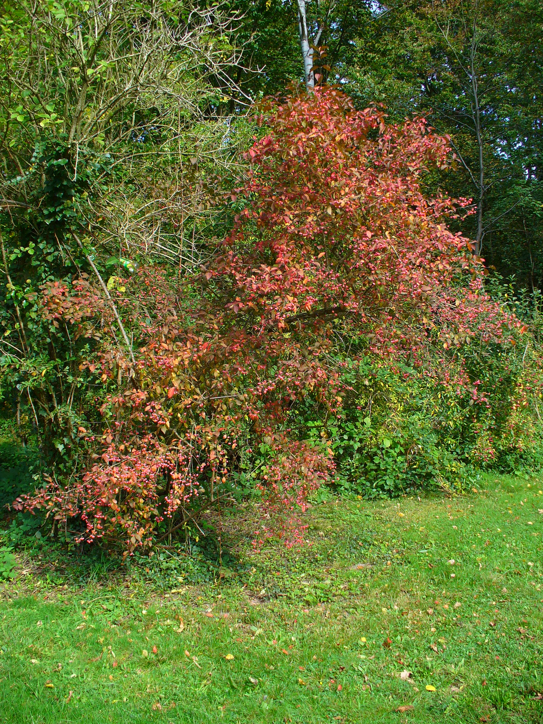 Euonymus europaeus, Celastraceae, European Spindle, Common Spindle, habitus; Karlsruhe, Germany.